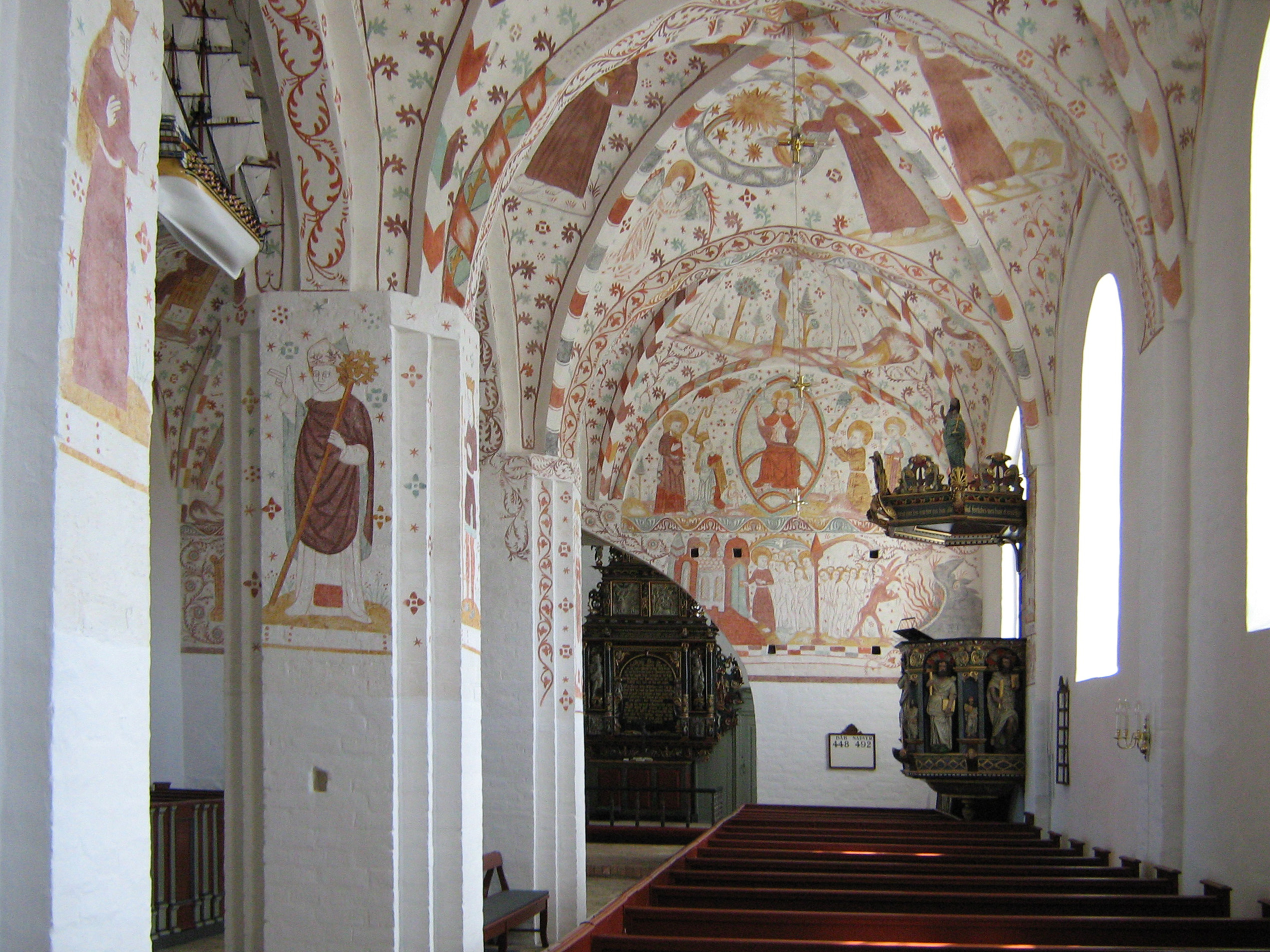 Fanefjord Church, Møn, Denmark. Inside the church following restoration.